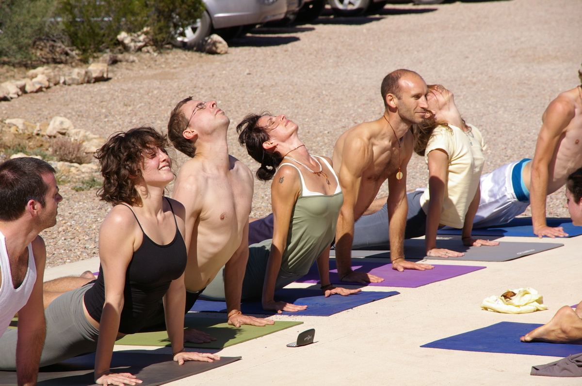 Original title and description: "Suryathon 2" Diamond Mountain students were sponsored to complete 108 sun salutations (surya namaskar) to raise money for the Diamond Mountain campground.